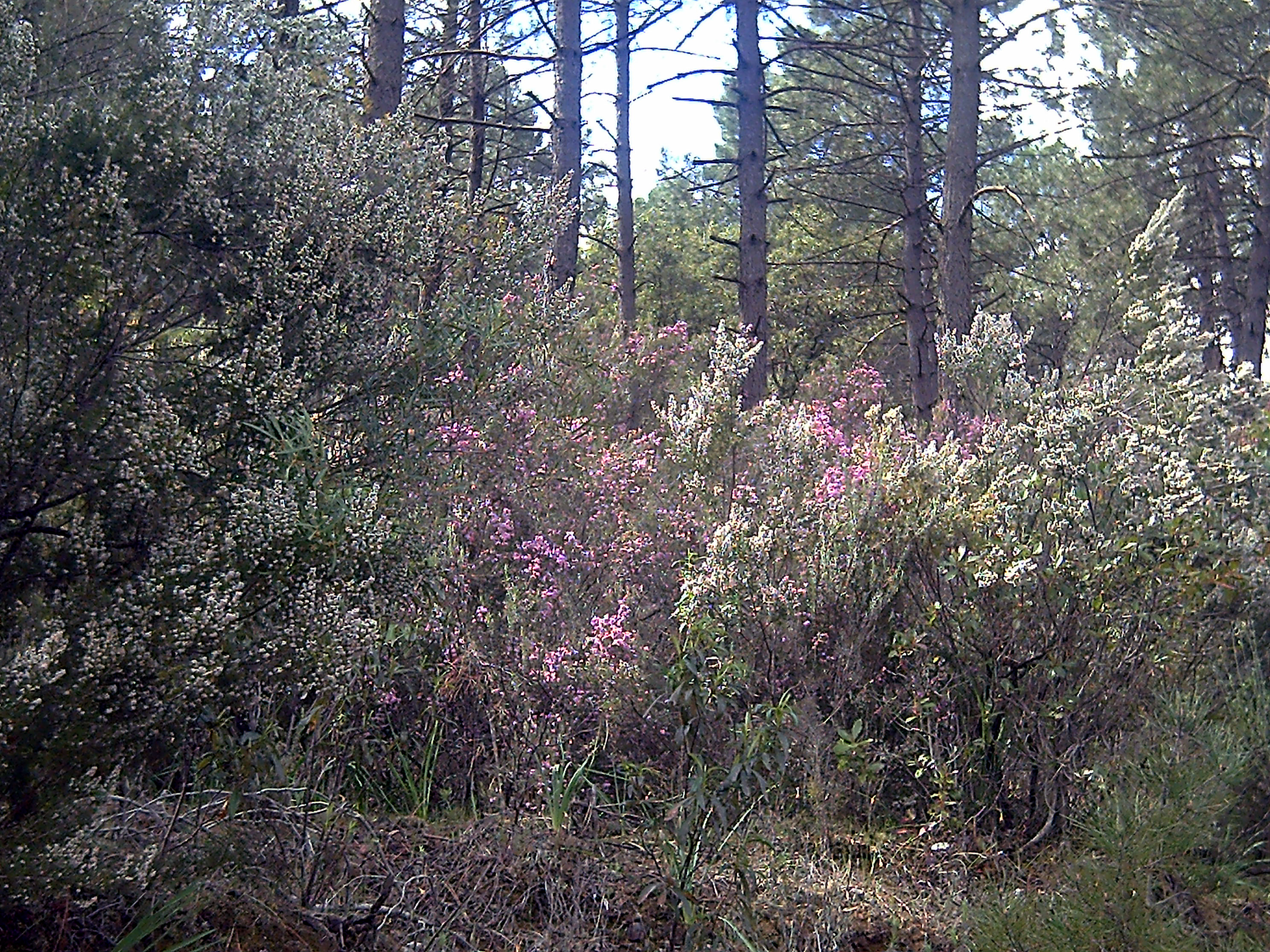 Heathers in Sierra Madrona, Spain